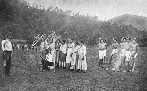 Photograph by James Mooney of a Cherokee dance, associated with the native game of stickball, in North Carolina.